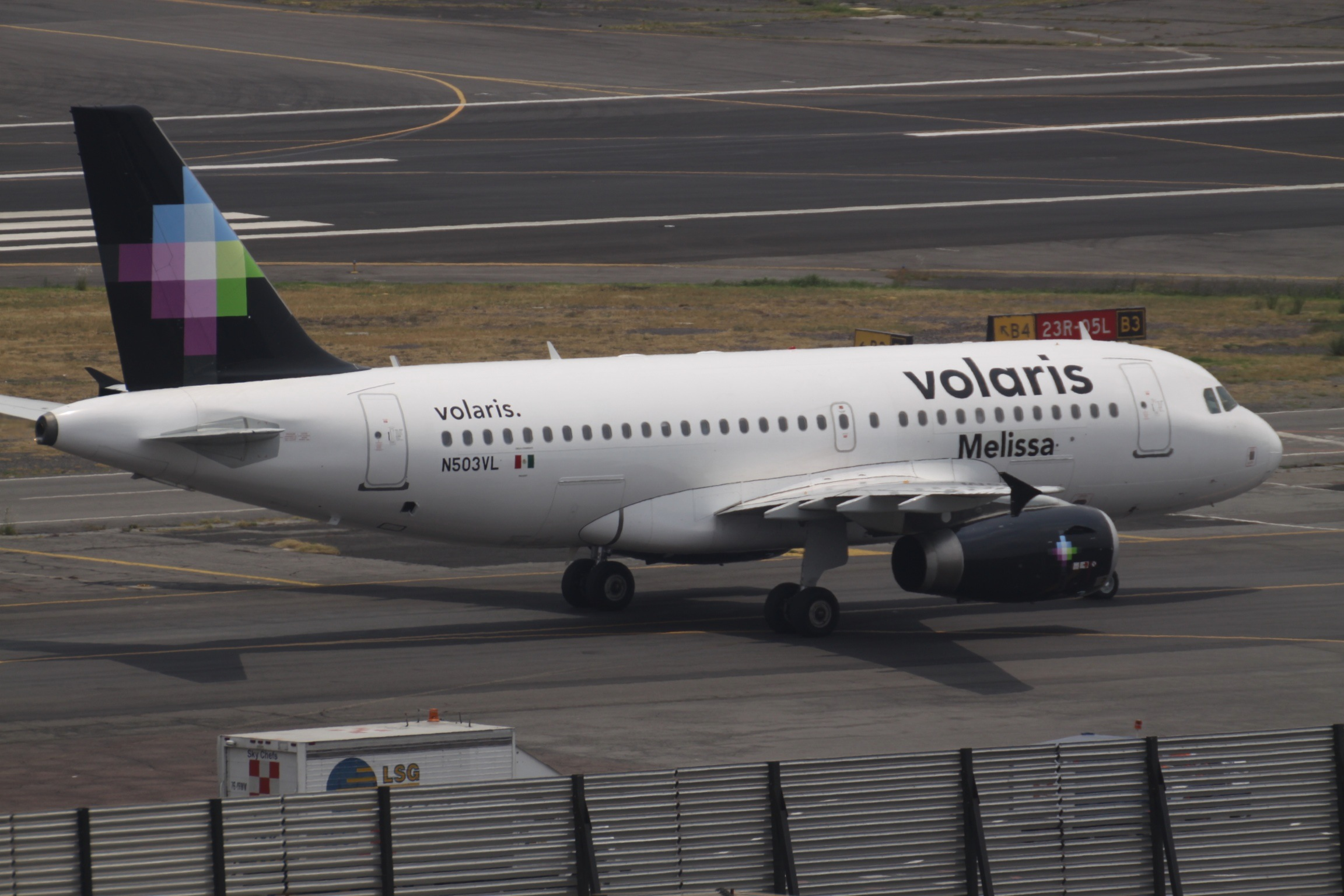 At Mexico City International Airport